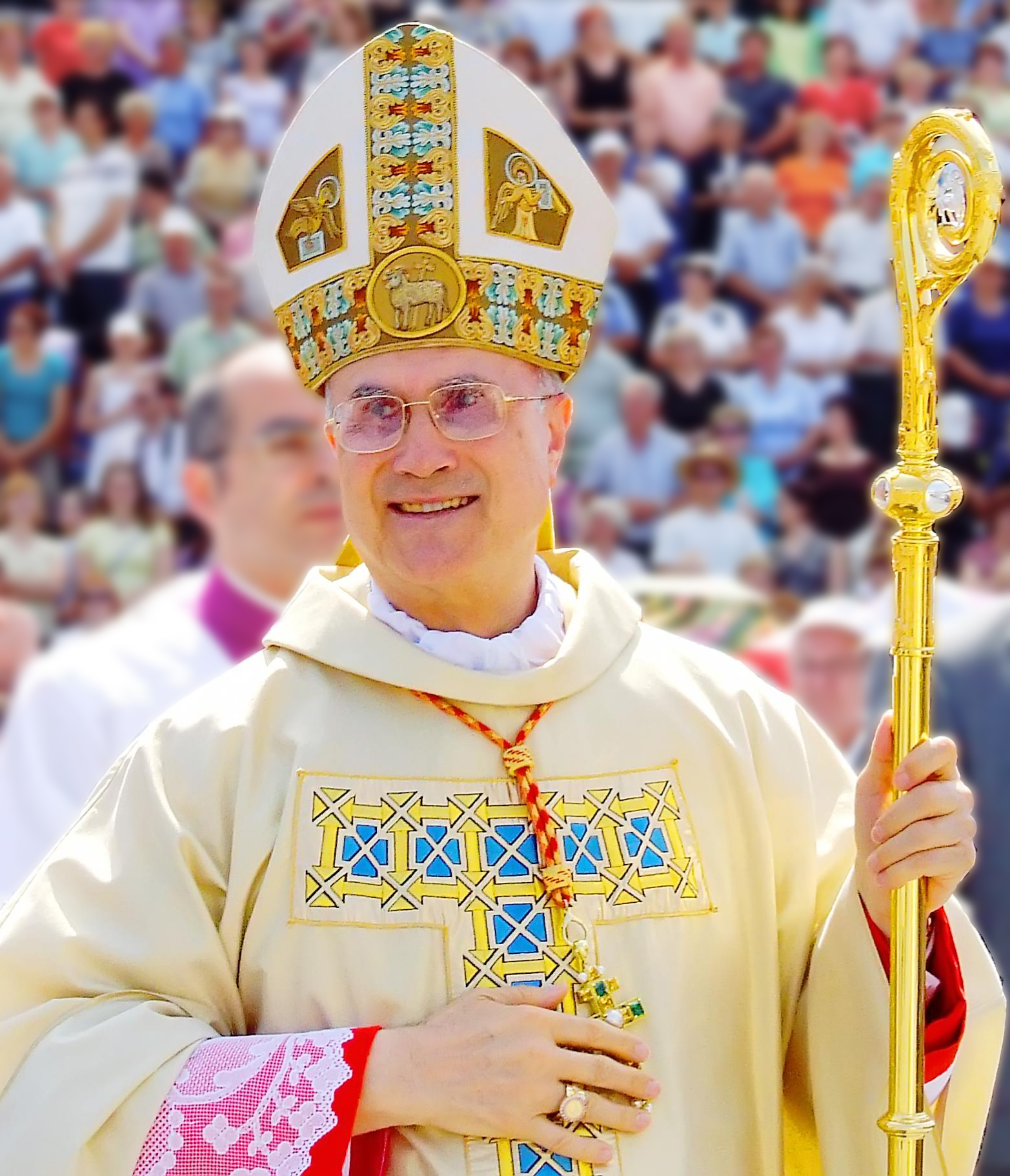 Cardinal Tarcisio Bertone at Slovenian Eucharistic Congress 2010 on Sunday, 13th June 2010